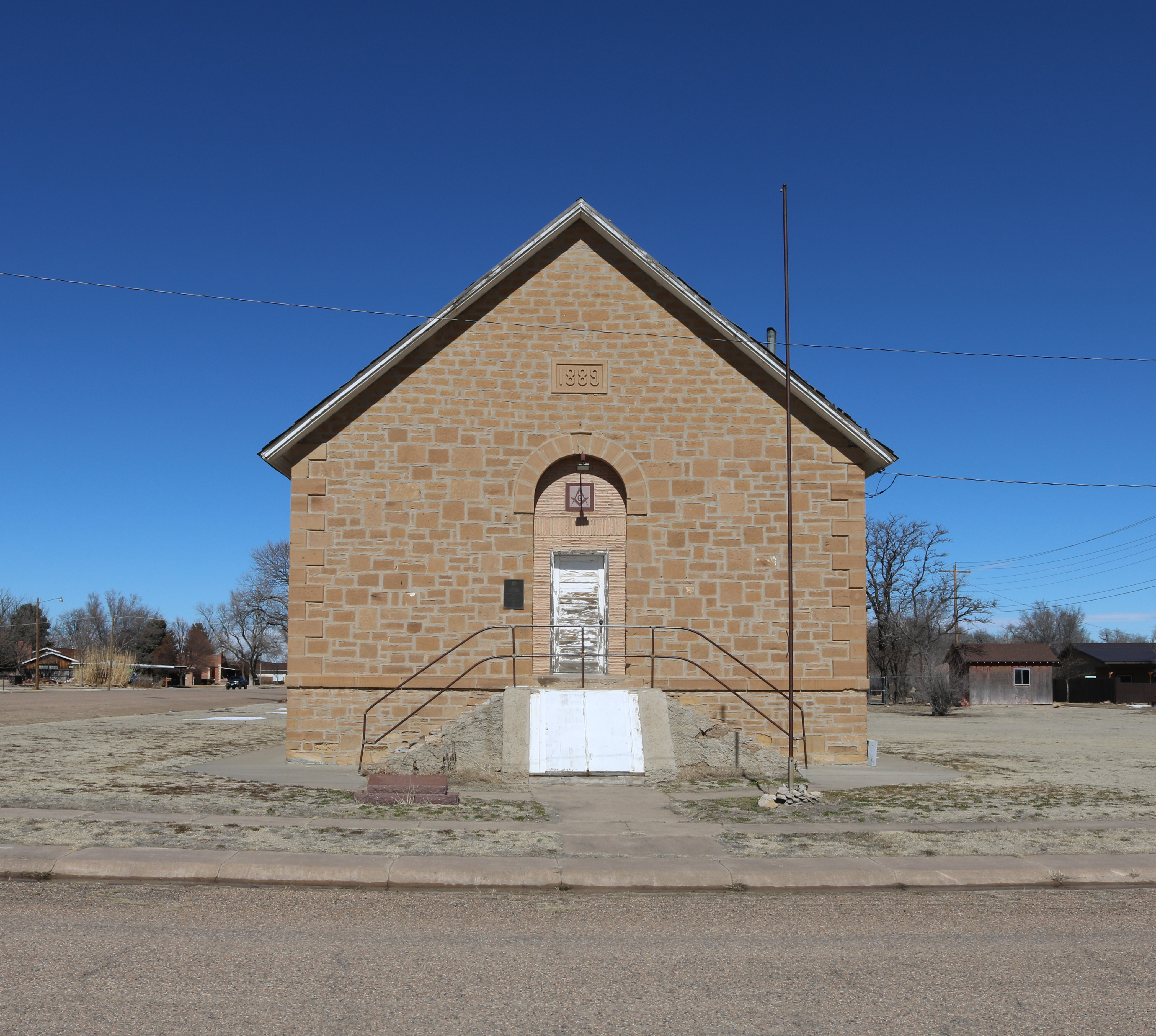 The Springfield Schoolhouse, located at 281 West 7th Avenue in Springfield, Colorado. The former school is listed on the National Register of Historic Places.